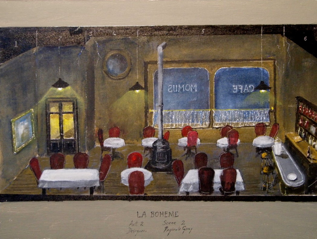 Theatre Design